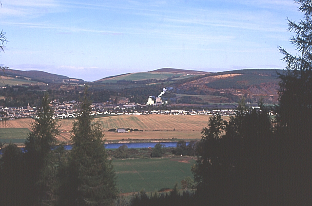 Rothes. Looking north towards Rothes from the Speyside Way near Arndilly. The hill beyond is the Brown Muir.